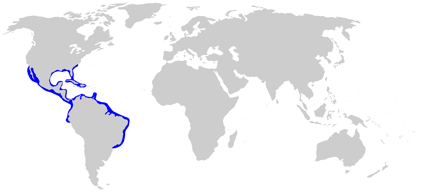 Distribution of the bonnethead shark (Sphyrna tiburo)